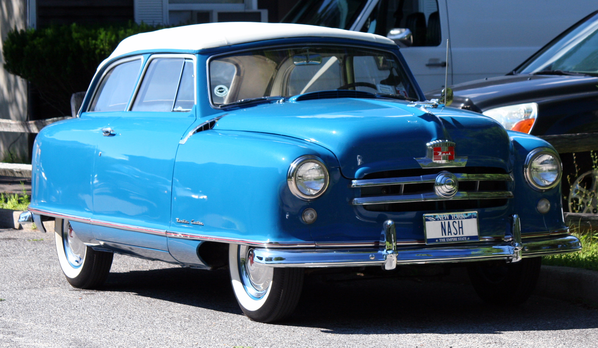 1951-1952 Nash Rambler Custom Landau convertible seen in East Hampton, NY. While this bodywork was introduced for 1950, "Custom" models were only available beginning in 1951.